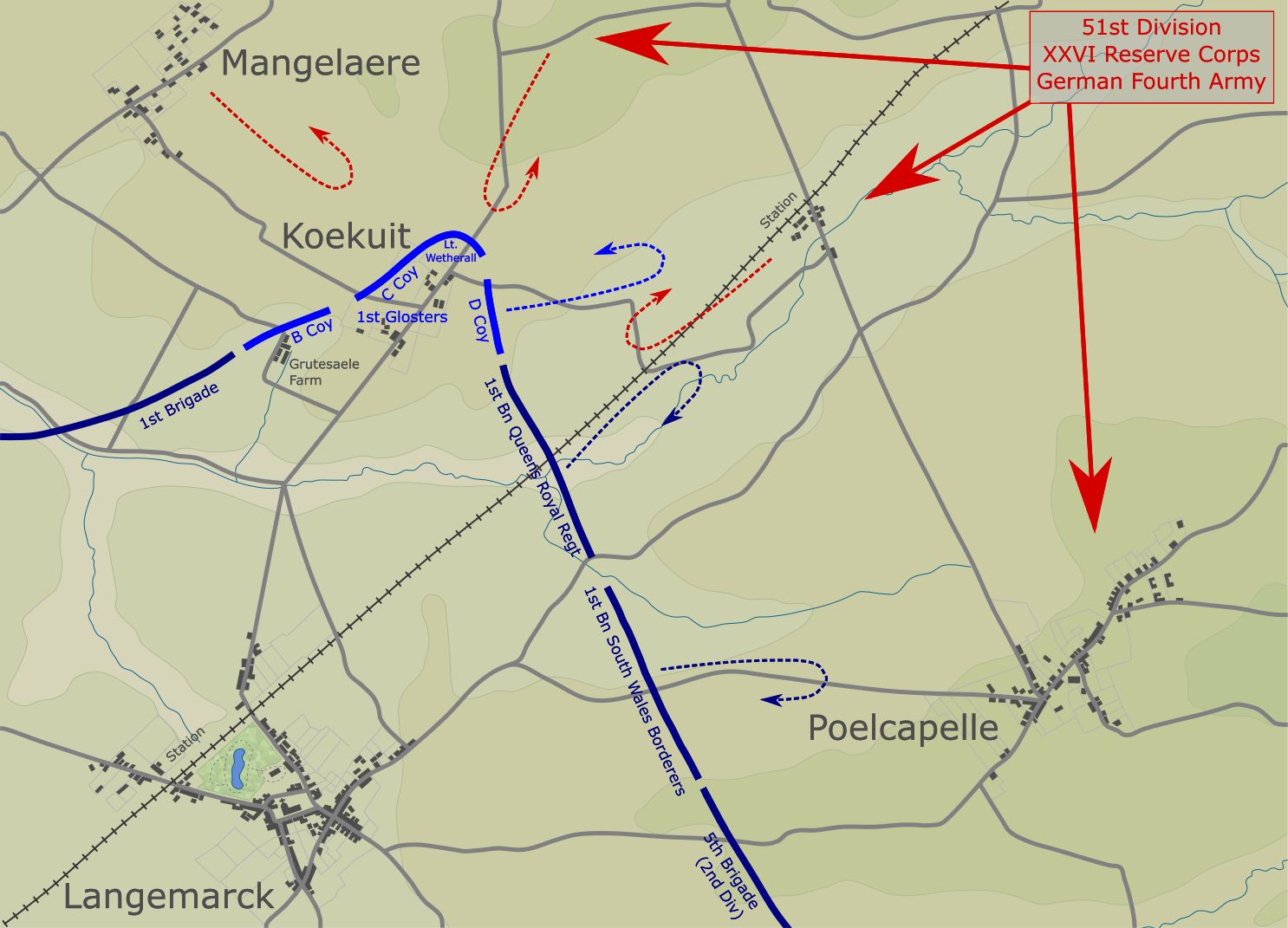 1st Battalion The Gloucestershire Regiment at the Battle of Langemarck on 21 October 1914, during the First Battle of Ypres.